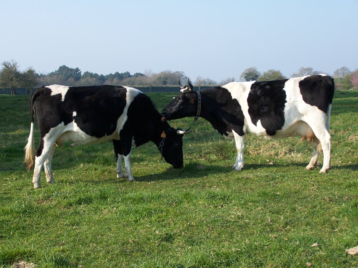 breton black-pied cows